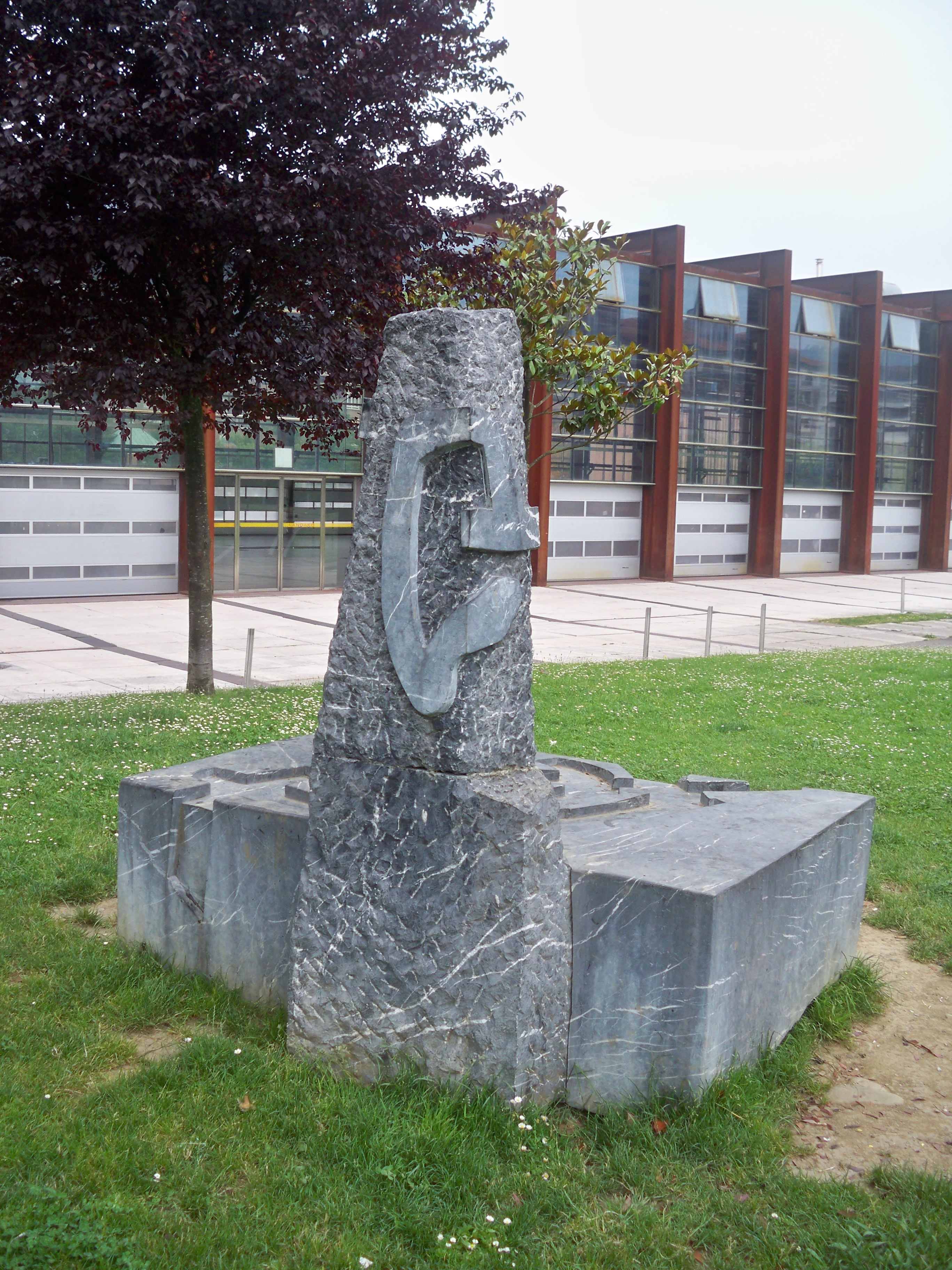 Memorial to gay people persecuted under Francoist at Durango, Biscay, Spain.